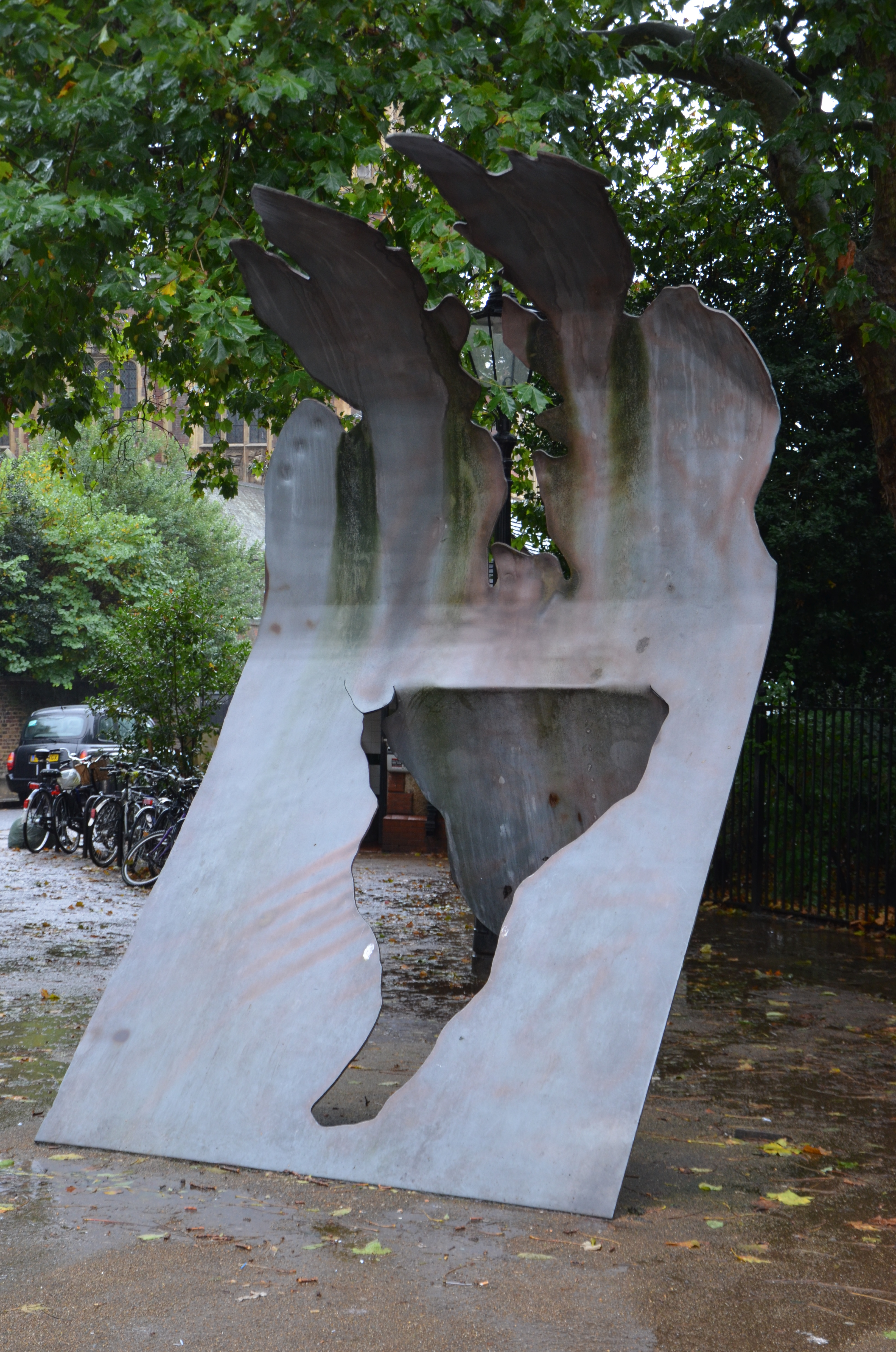 Camdonian av Barry Flanegan vid Lincoln Inn's Fields i London The photographic reproduction of this work is covered under United Kingdom law (Section 62 of the Copyright, Designs and Patents Act 1988), which states that it is not an infringement to take photographs of buildings, or of sculptures, models for buildings, or works of artistic craftsmanship permanently located in a public place or in premises open to the public. This does not apply to two-dimensional graphic works such as posters or murals. See Commons:Freedom of panorama#United Kingdom for more information. This work may not be available under a free license in the United States because it is based on an artwork or sculpture that may be protected by copyright under U.S. law. (Commons is hosted in the United States and as such U.S. law is applicable.) In the source country of the artwork or sculpture, taking photographs of such works permanently located in a public place does not generally infringe on their copyright, under a principle known as "freedom of panorama". In U.S. law there is no freedom of panorama for artwork or sculpture, and under the choice-of-law principle lex loci protectionis U.S. courts might apply U.S. freedom-of-panorama standards to this work, rather than the standards of the source country. However, in practice it is unsettled whether and how this approach would be applied in real world U.S. legal cases involving freedom-of-panorama elements. The current policy on Commons is to accept photos of artwork and sculptures that are covered by freedom of panorama in their source country. This policy may change in the future, depending on the outcome of community discussions and new case law. This is not a valid license tag on Commons; this file must be usable under freedom of panorama in its source country or it will be deleted.